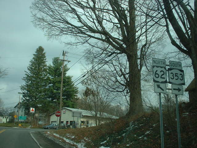 US 62 at NY 353 South